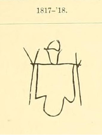 A Buffalo skin on a drying frame